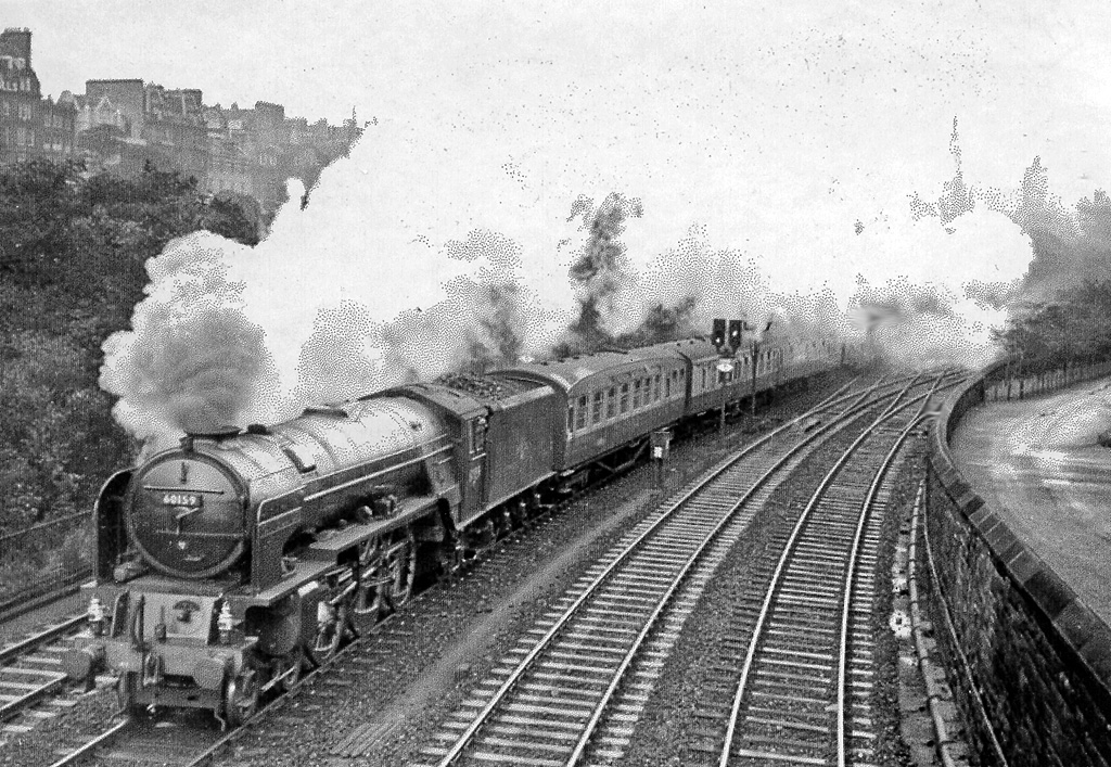 Aberdeen express leaving Edinburgh Waverley. View eastward, towards Edinburgh Waverley, where the ex-North British main lines to the West and North pass through Princes Street Gardens and below the Castle. The 17.10 to Aberdeen is headed (aapropriately) by A1 Pacific No. 60159 'Bonnie Dundee'.